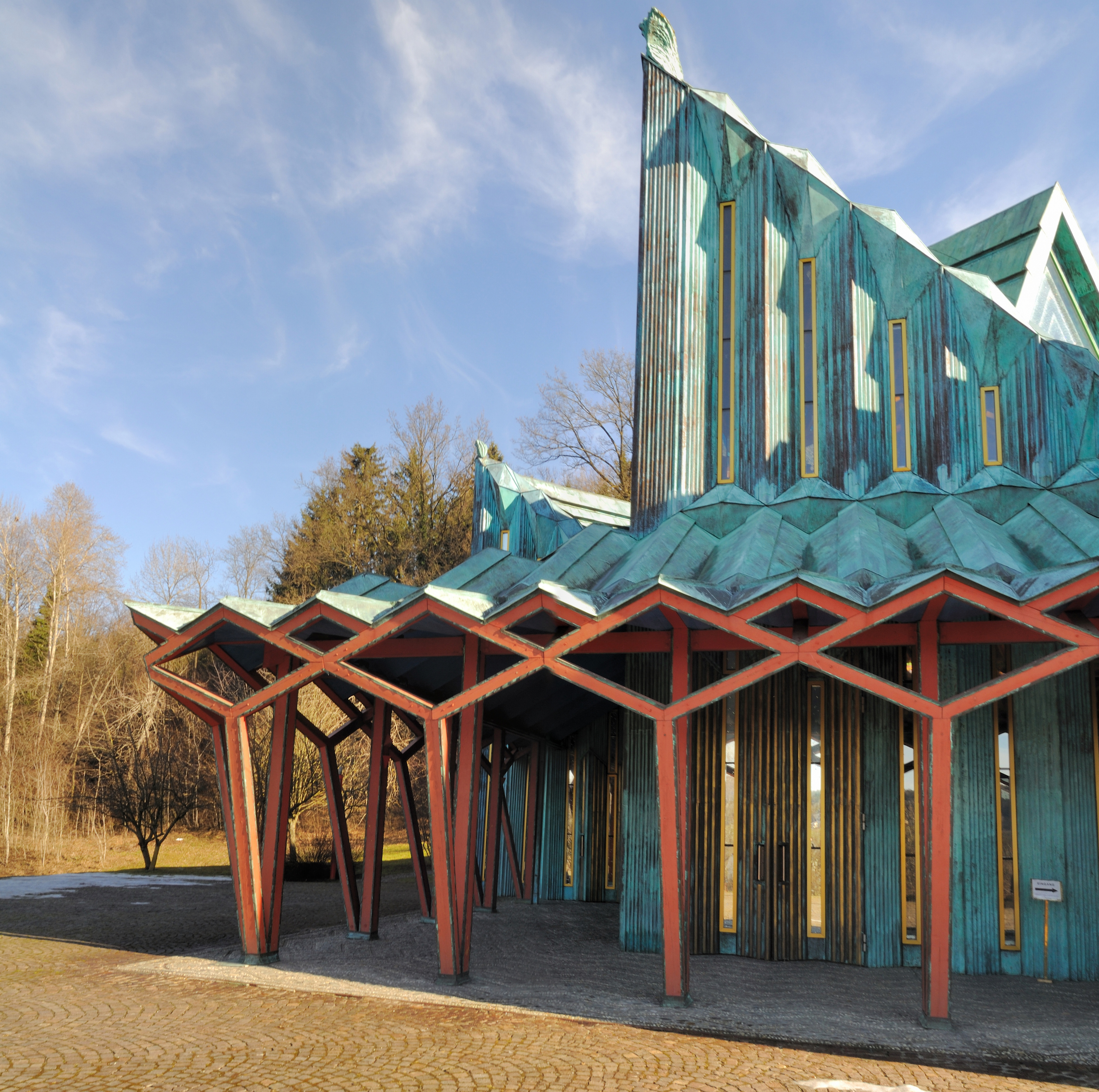 Thal: Saint Jacob church